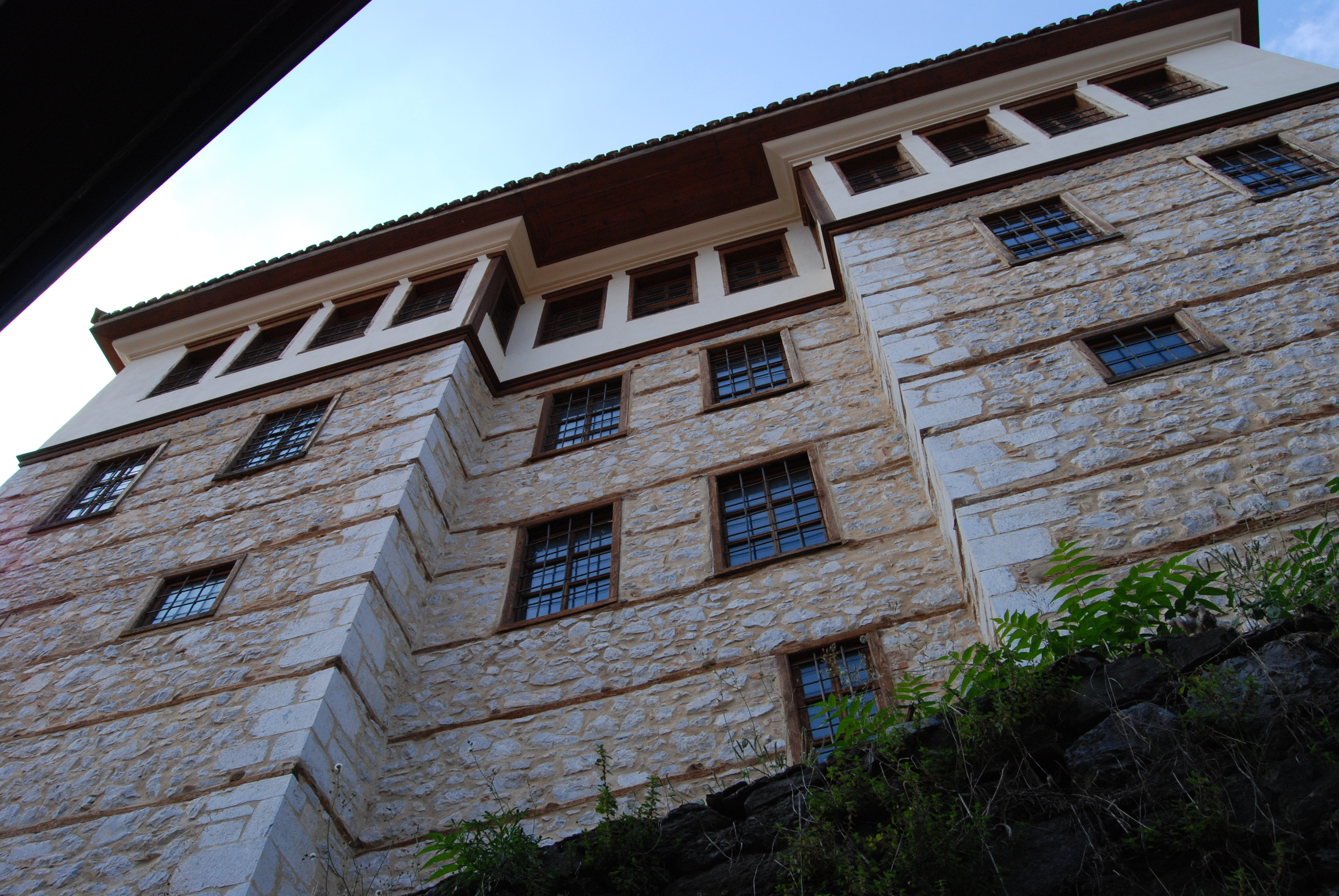 Mansion in Kastoria